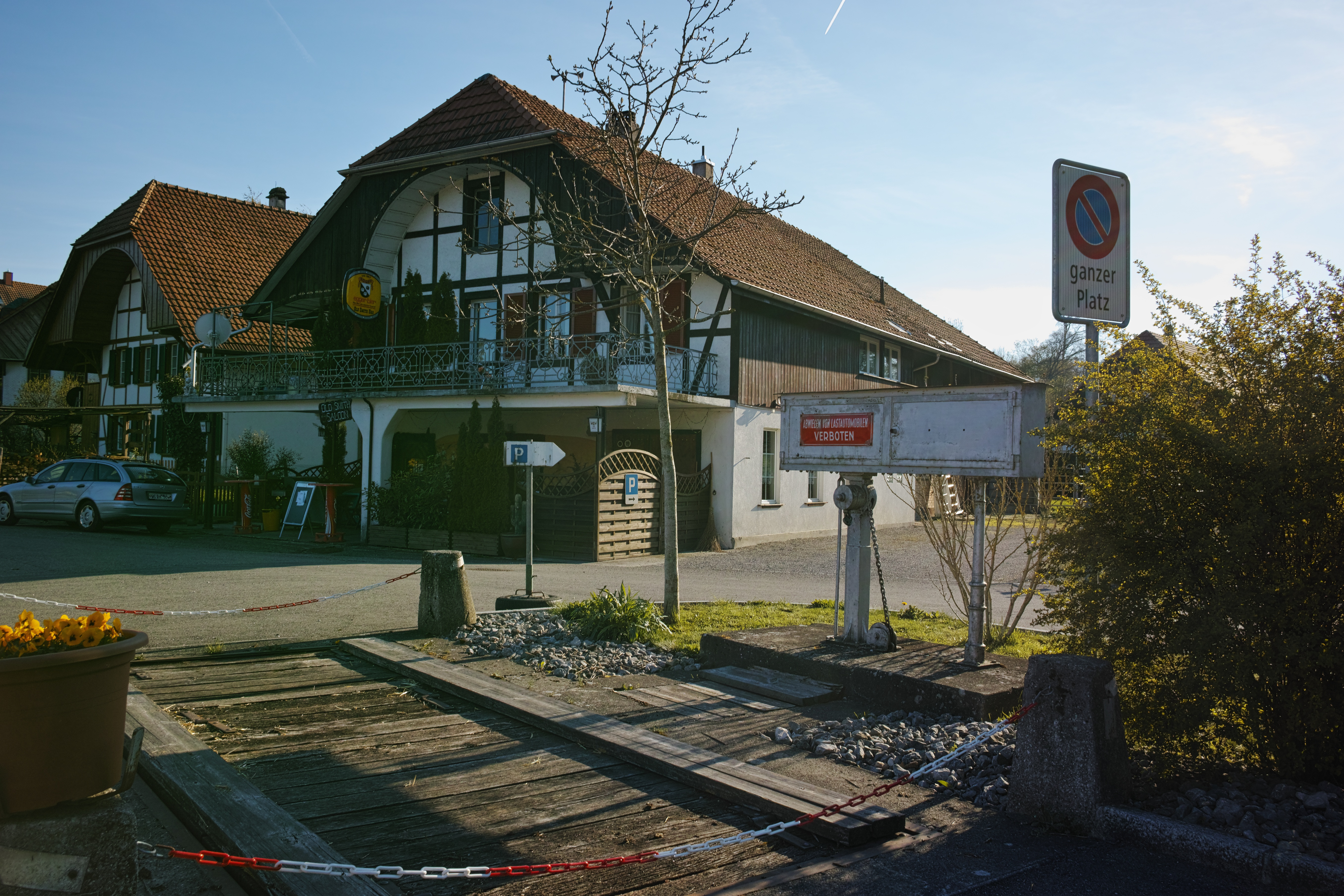 Jens, municipality in the canton of Bern, Switzerland. Village scale (weigh bridge).